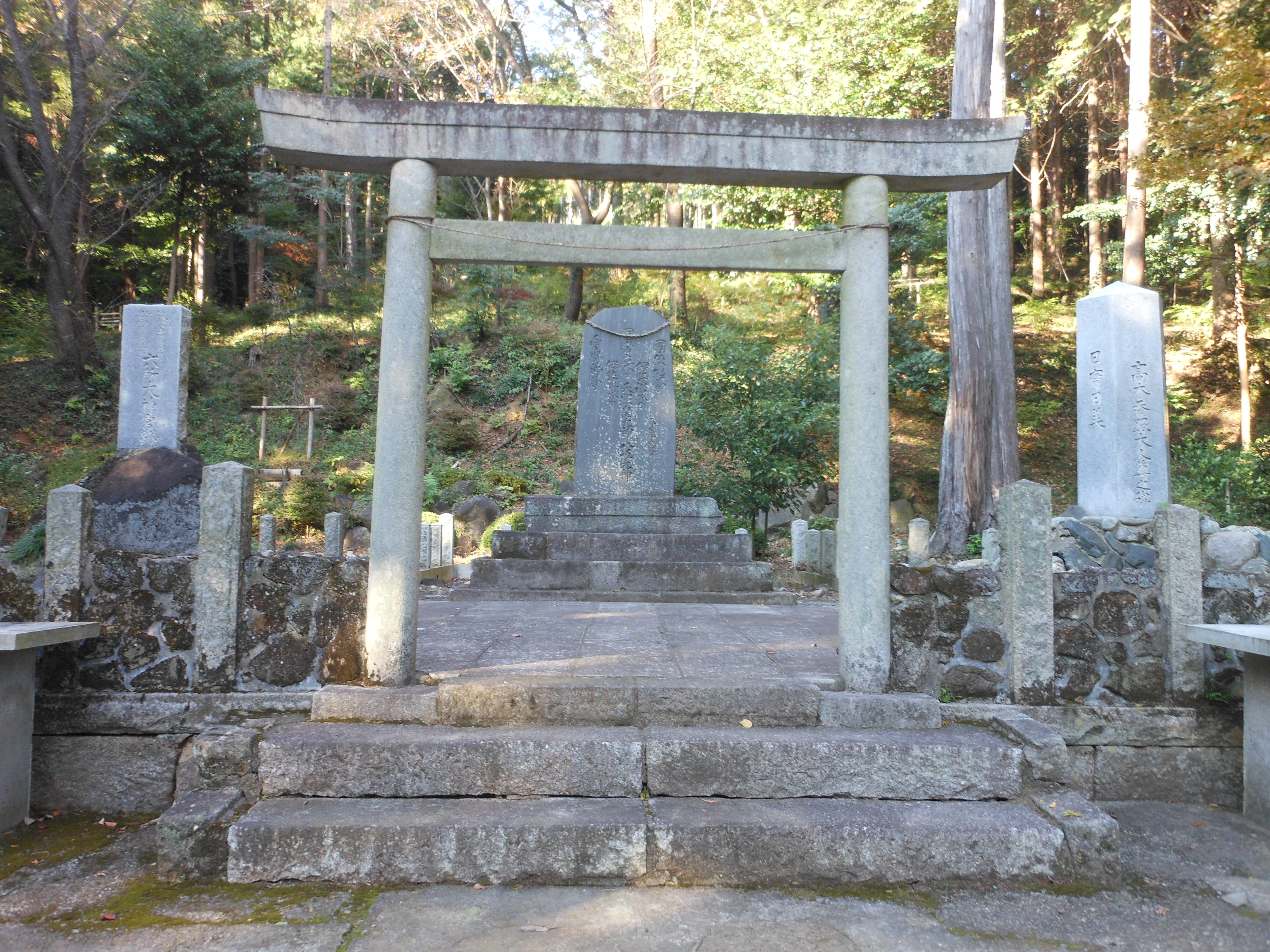 This is the site of Rokusho Kotai Jinju shrine in Tsukuba city, Ibaraki prefecture, Japan.